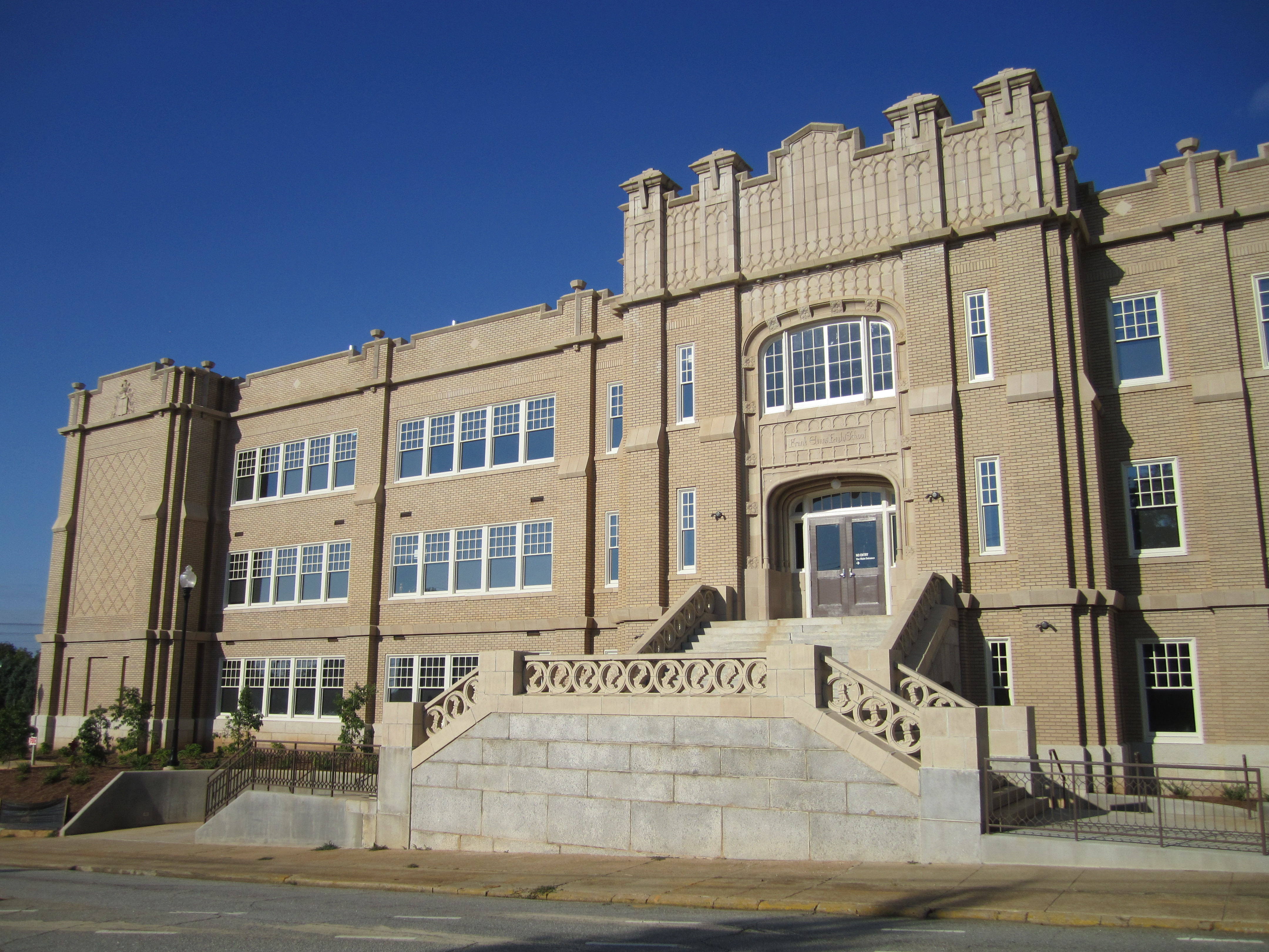 The historic Evans High School building was fully renovated and restored in 2013 to house Spartanburg Community College's downtown campus.